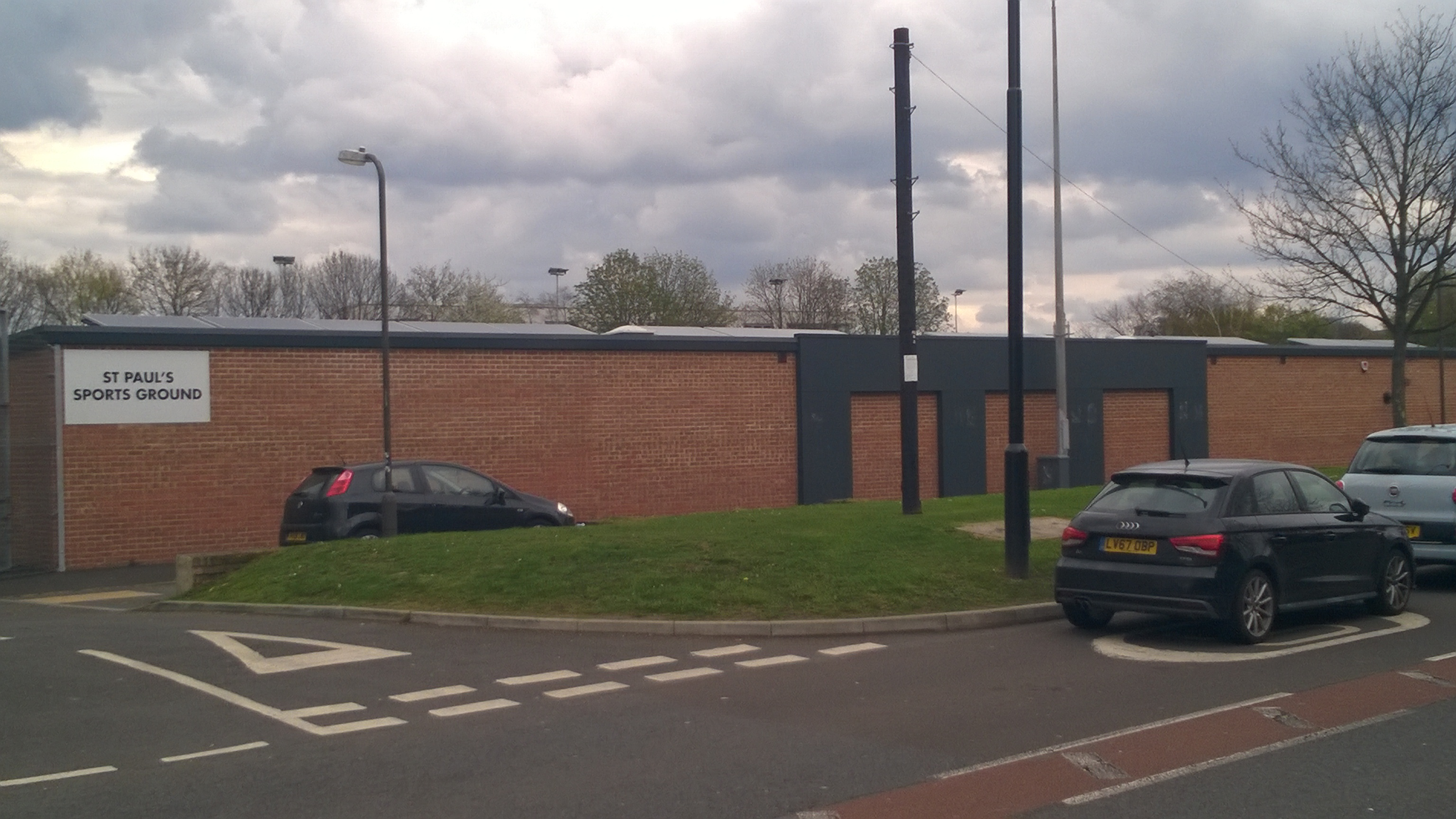 Exterior of St Paul's Sports Ground, Rotherhithe